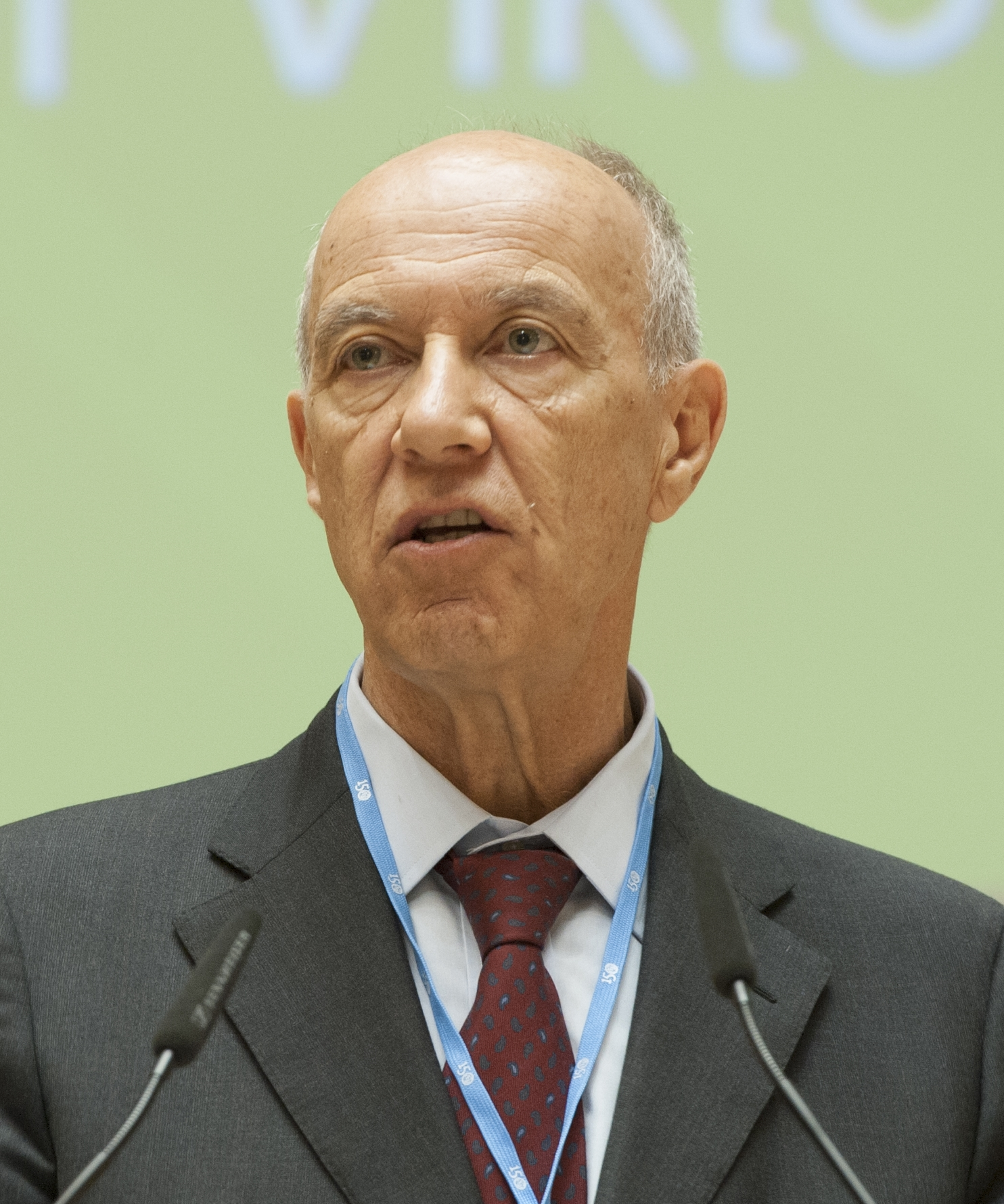 WSIS FORUM 2015 Day 2. Opening Segment: Opening Ceremony, Opening Session, High-Level Policy Statements, Handing over of WSIS Prizes and Group Photograph. Mr. Francis Gurry, Director General, WIPO.